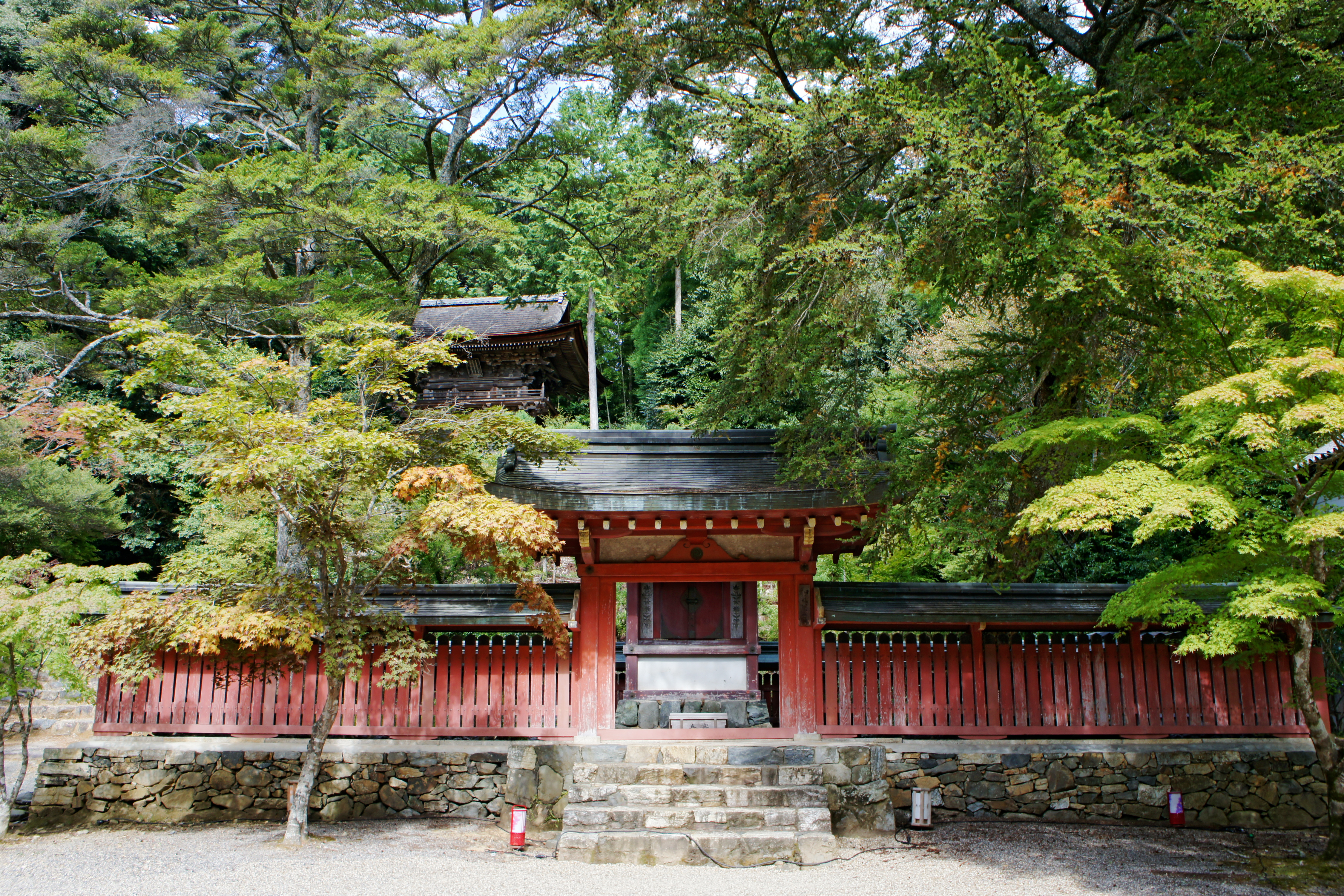 Jingo-ji in Ukyō-ku, Kyoto, Kyoto Prefecture, Japan.